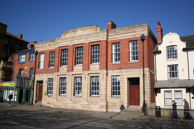 NFU Offices. Lincoln HQ of the National Farmers Union on St.Mary's Street